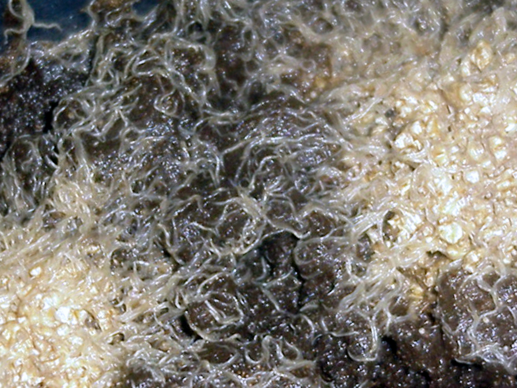 Enchytraeus colony